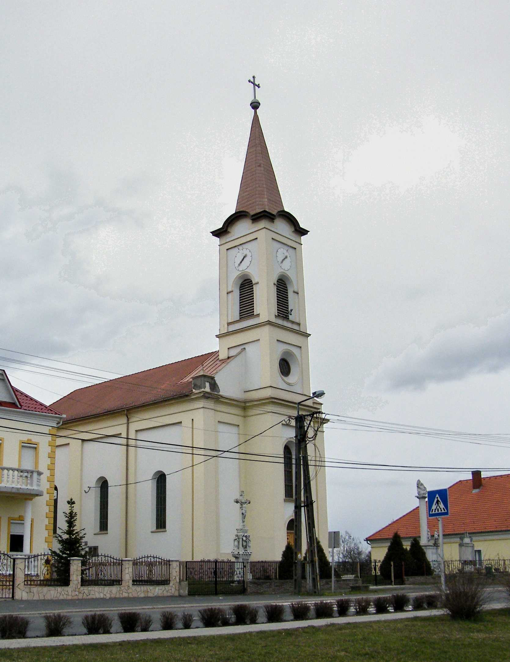 John the Baptist roman catholic churc in Pacsa, Hungary, the site of the 1932 Pacsa massacre.